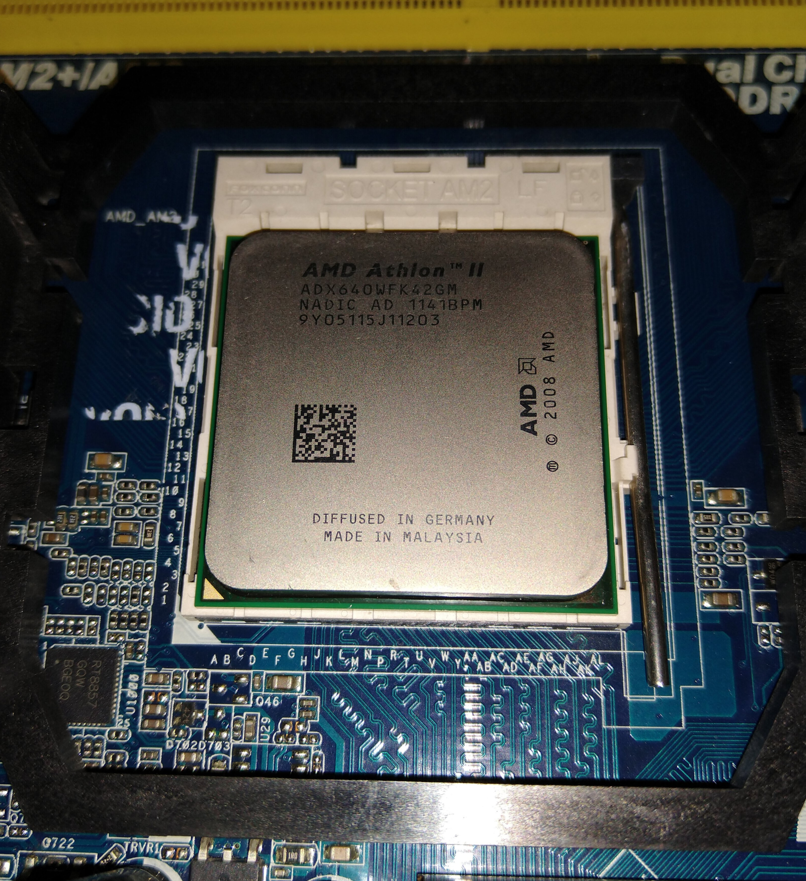 An AMD Athlon II X4 "Propus" processor installed on an ASRock N68-S motherboard through its AM3 Socket